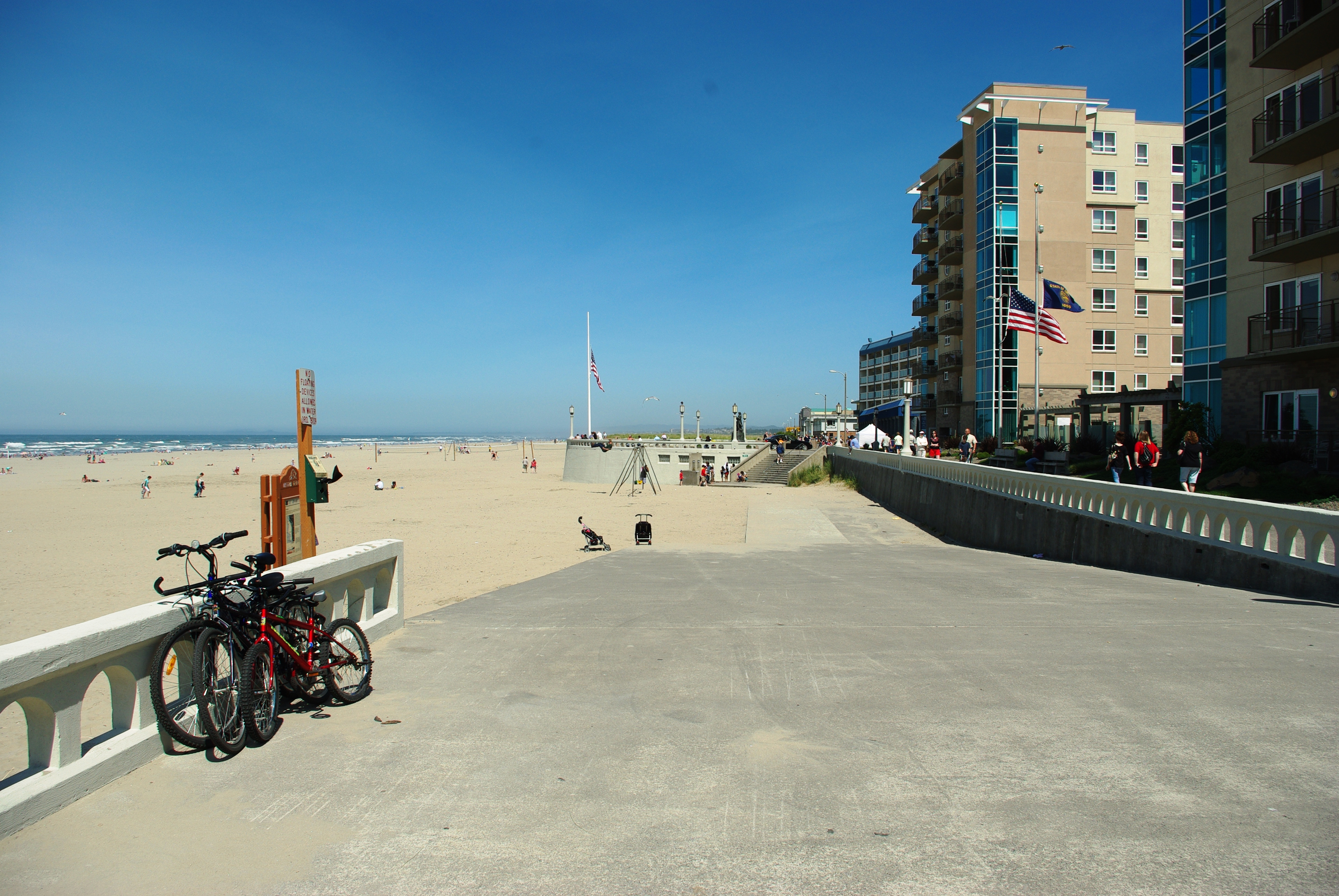 Hotels or condos and the beach in Seaside, Oregon, USA. Boardwalk and promenade on right, Pacific Ocean to left, turnaround with Lewis & Clark statue straight ahead. Eight-story, tan colored building on right is The Resort at Seaside condominiums by Wyndham.